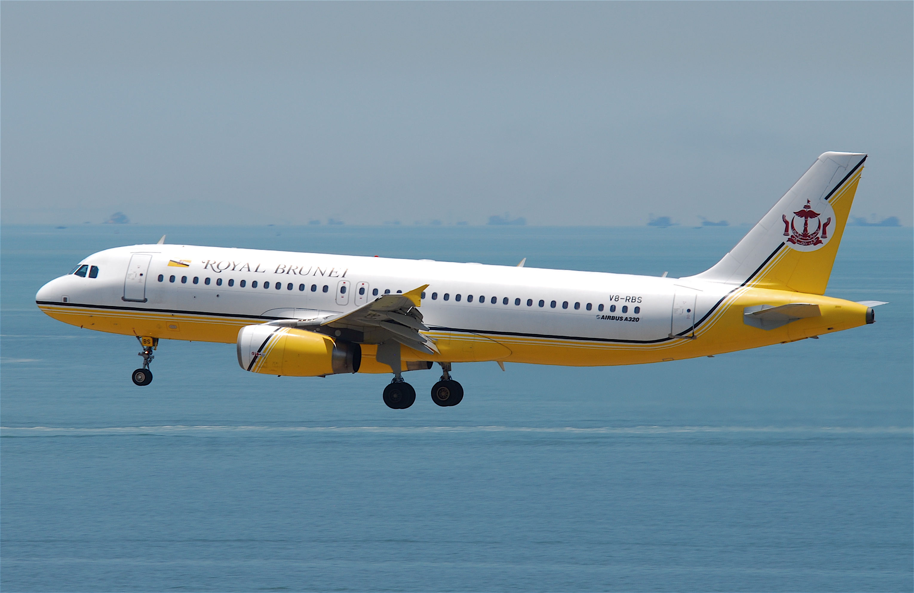 Royal Brunei Airlines Airbus A320-232; V8-RBS@HKG;04.08.2011/615mf